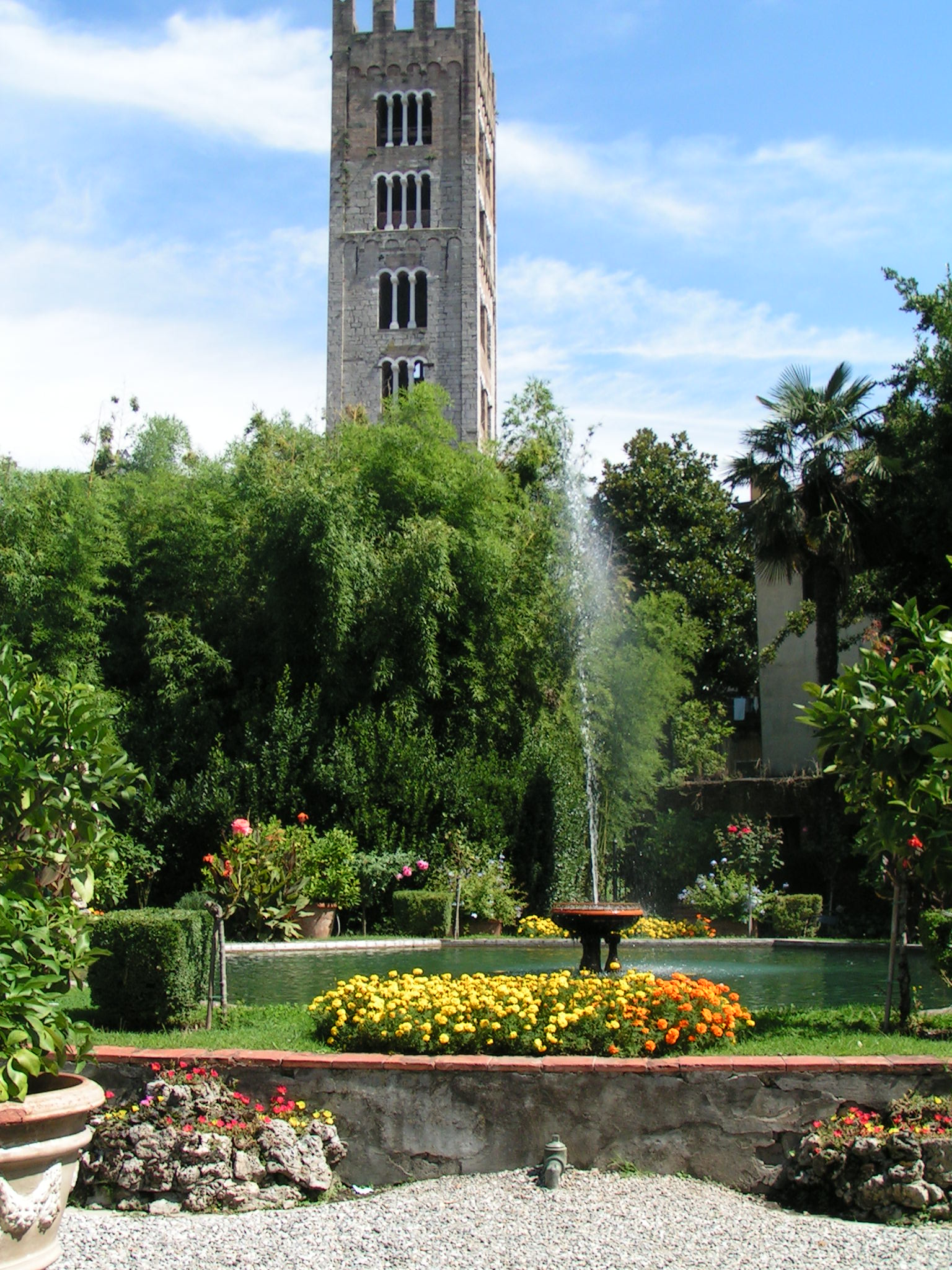 Garden of Palazzo Pfanner and Campanile of San Frediano Basilica in Lucca (Tuscany)